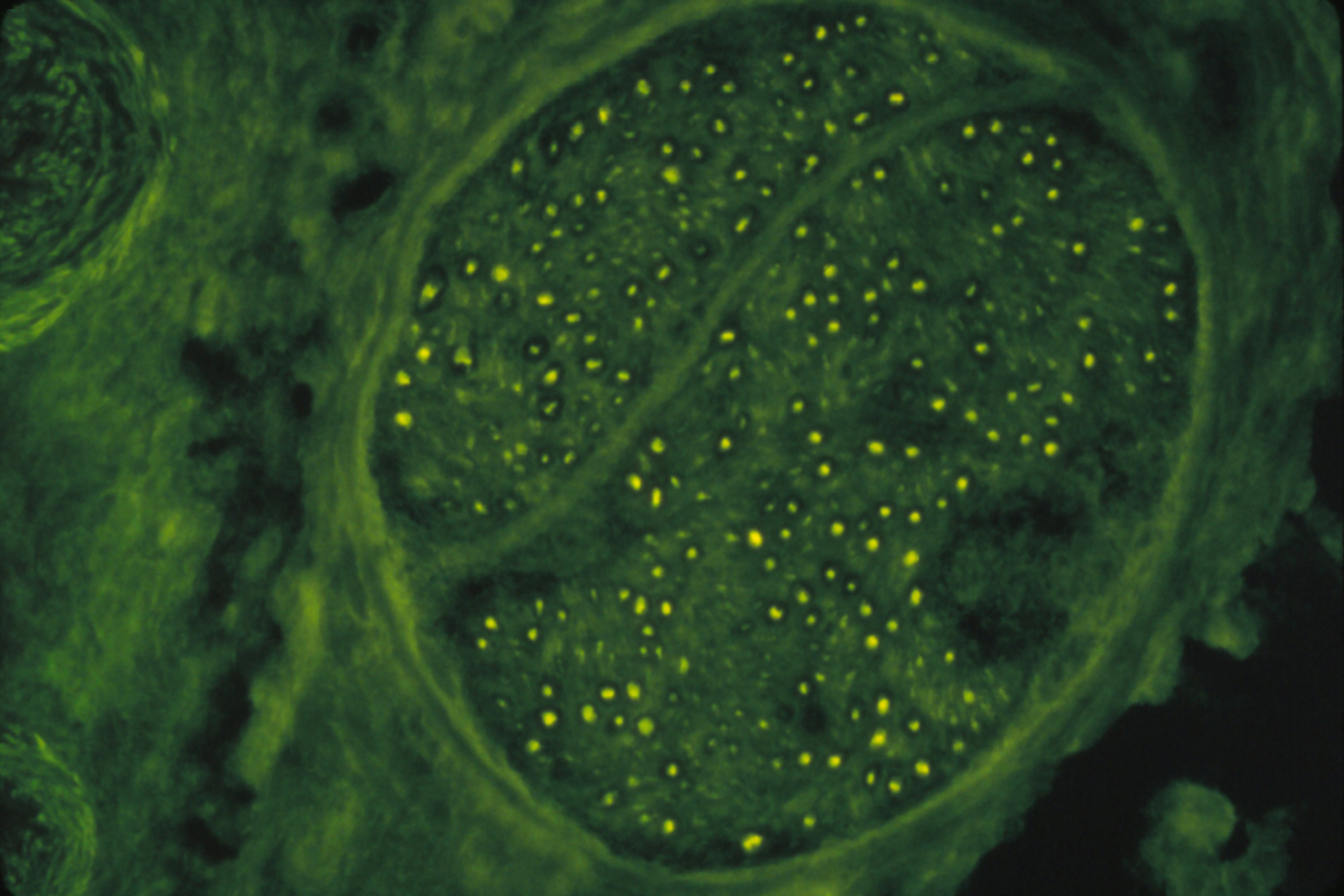 FITC stained preparation: Section of normal human N.peroneus nerve tissue incubated with HIV-positiv human serum, obtained from a patient suffering from HIV-related neuropathy